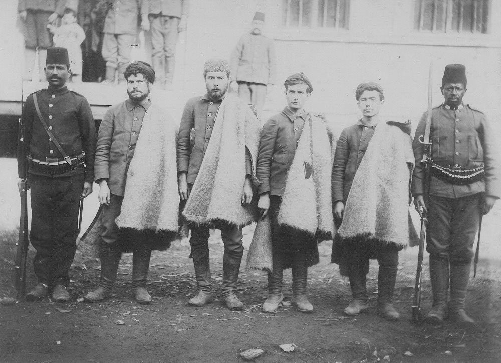 Greek andarts captives in Bitusha, who participated in massacres in Dragosh